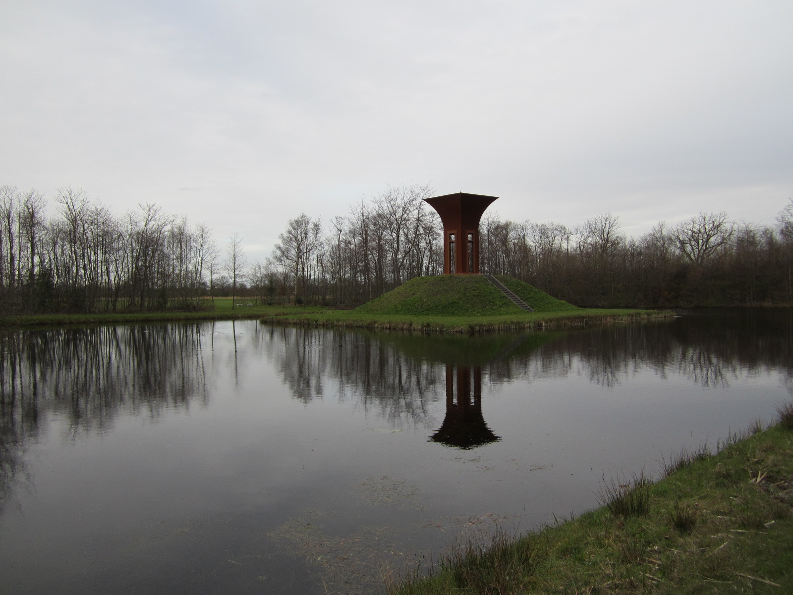 Groot Vijversburg, estate near village Tietjerk, county Friesland, The Netherlands. Artwork De kelk, made by Rudi van de Wint.